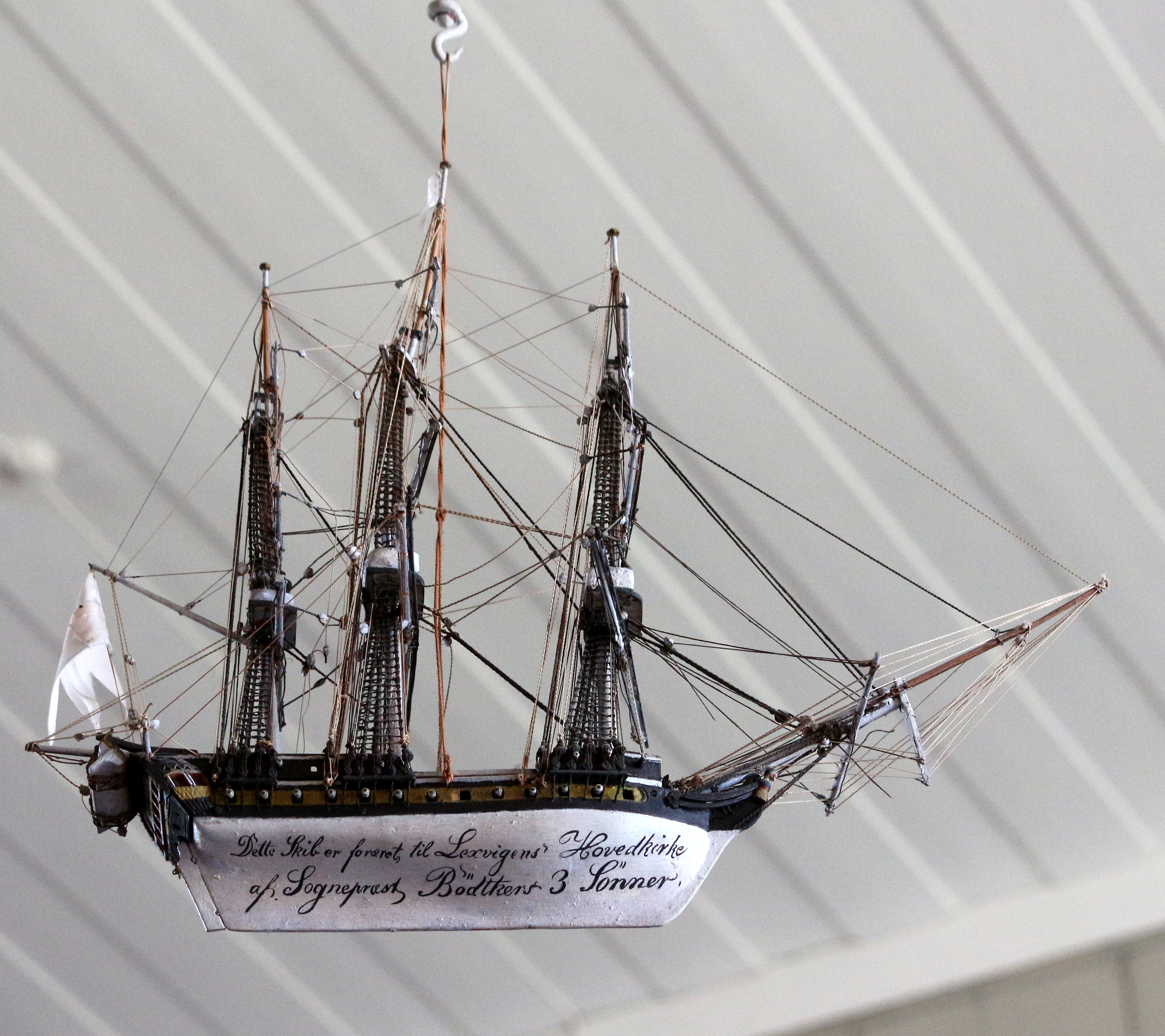 Leksvik church - ship.